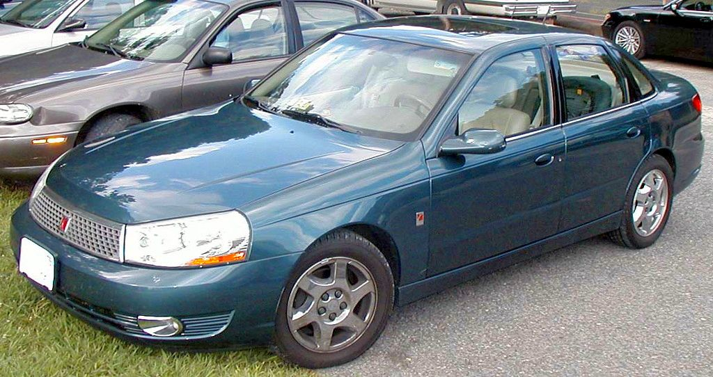 2003-2005 Saturn L-Series sedan photographed in USA.